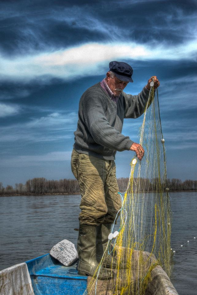 Fisherman on Danube